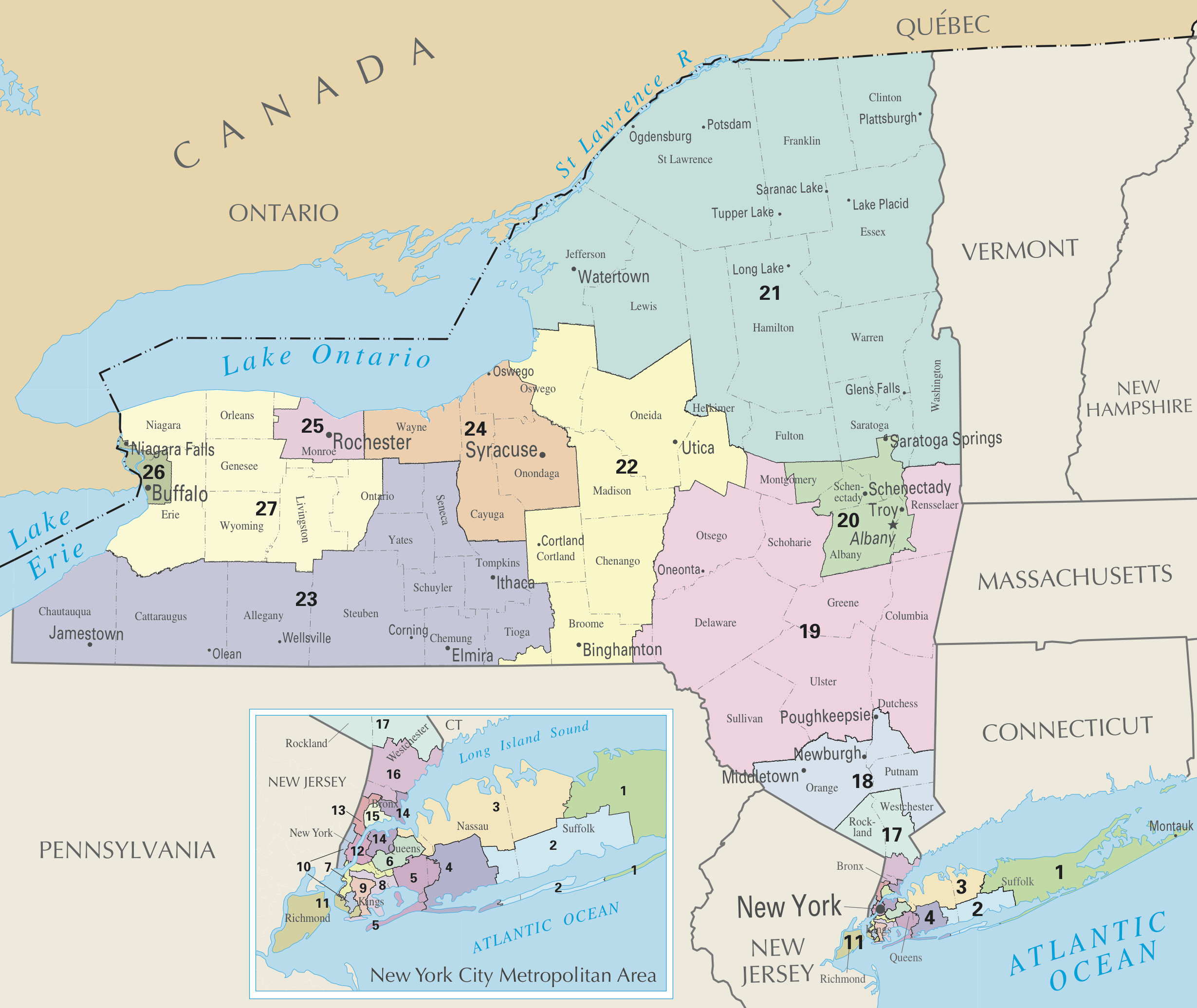 Map of New York's congressional districts from 2013 to present.